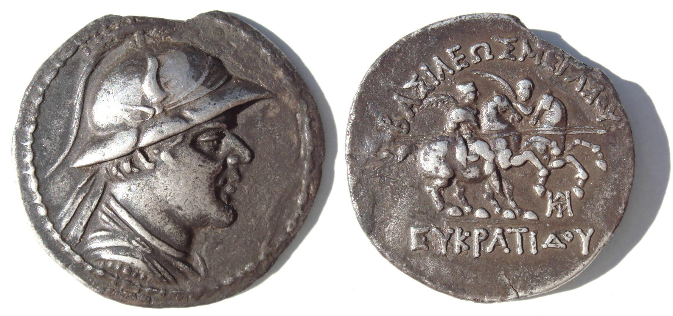 Silver tetradrachm of the Greco-Bactrian King Eucratides I (171-145 BC) with the Dioscuri. Obv: Bust of Eucratides. Helmet decorated with a bull's horn and ear. Rev: Depiction of the Dioscuri, each holding palm in left hand, spear in righthand. Greek legend: BASILEOS MEGALOY EUKRATIDOI "(of the) Great King Eucratides". Mint monogram below. Characteristics: Diameter 32 mm. Weight 15.9 g. Attic standard. One of the largest Hellenic coins ever minted.